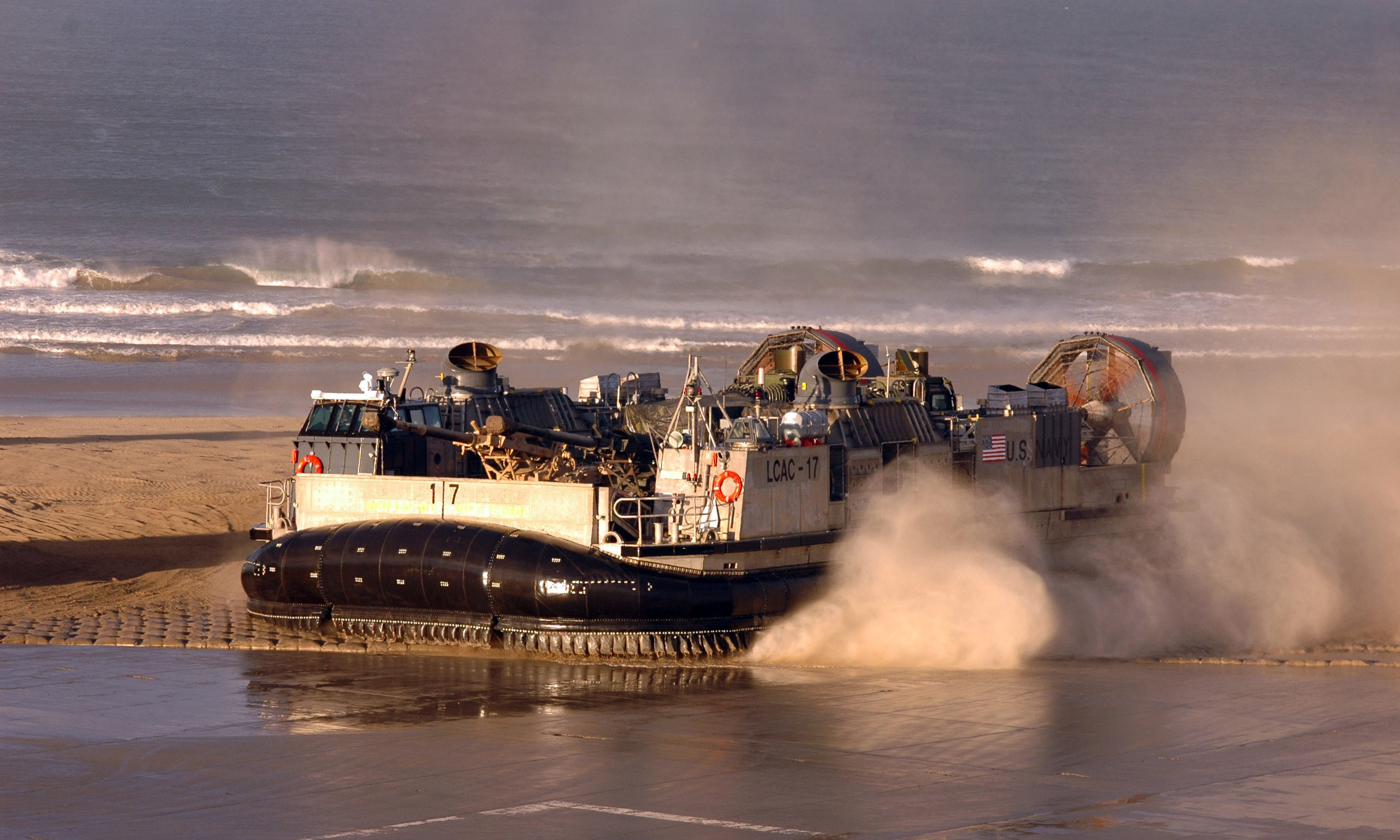 060219-N-2101W-001 Camp Pendleton, Calif. A Landing Craft Air Cushion (LCAC), assigned to Assault Craft Unit Five (ACU-5), prepares to unload a 155 mm Howitzer artillery gun belonging to the of 13th Marine Expeditionary Unit (MEU) operating along the Camp Pendleton coast. Expeditionary Strike Group One (ESG-1), returned after a seven-month deployment in support of the global war on terrorism.